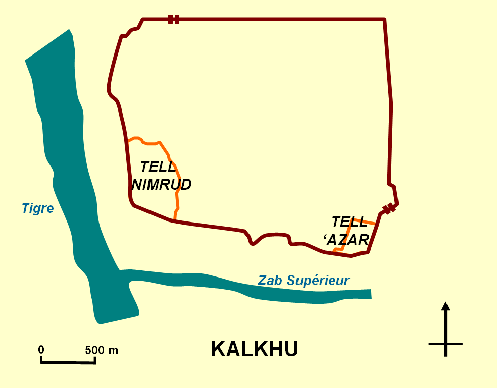 Simplified plan of the assyrian city of Kalkhu, with the tells of Nimrud (palaces and temples) and 'Azar (ekal masharti, the arsenal), and the walls.